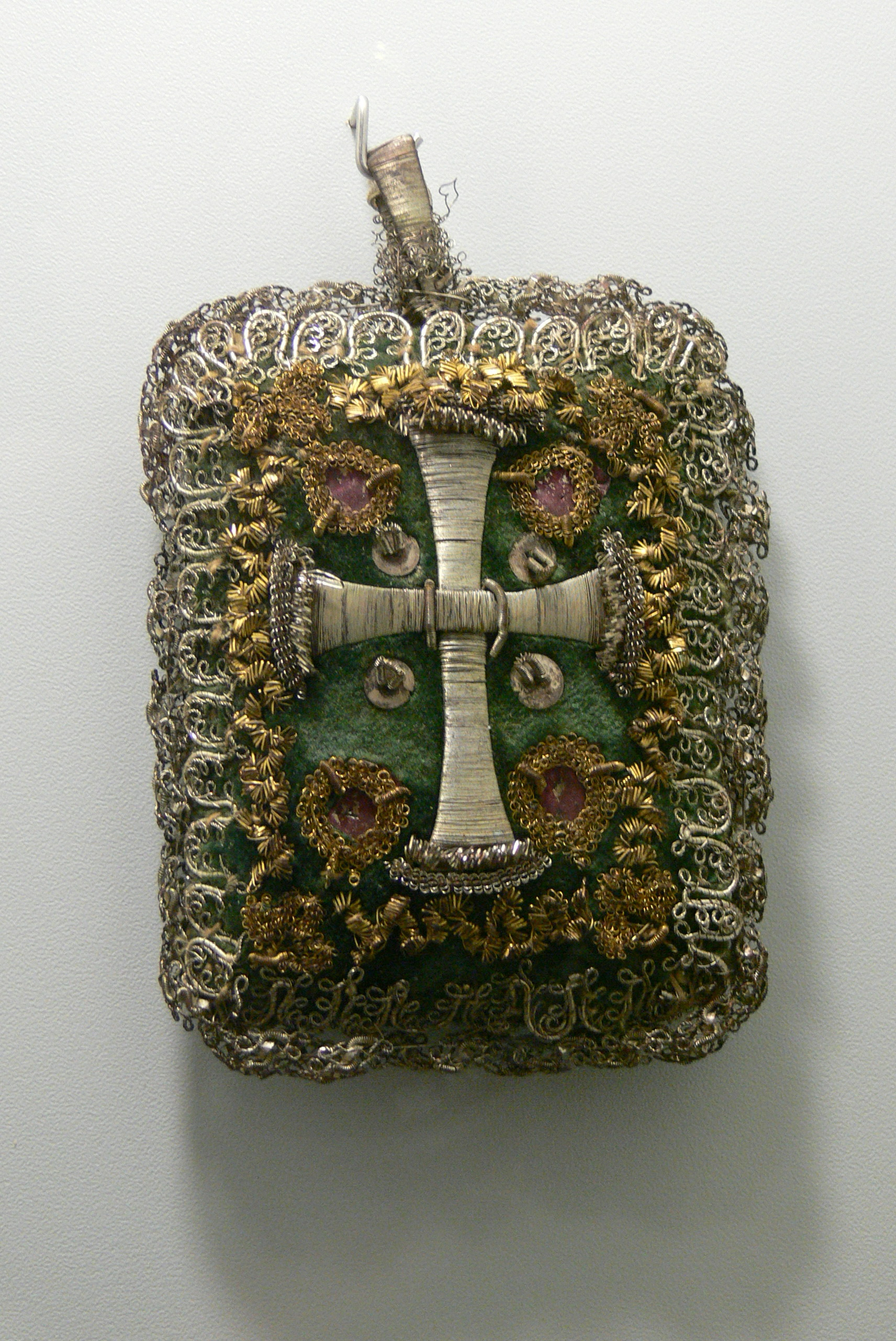 Oberhausmuseum ( Passau ). Christian talisman ( Breverl ), 18th century.